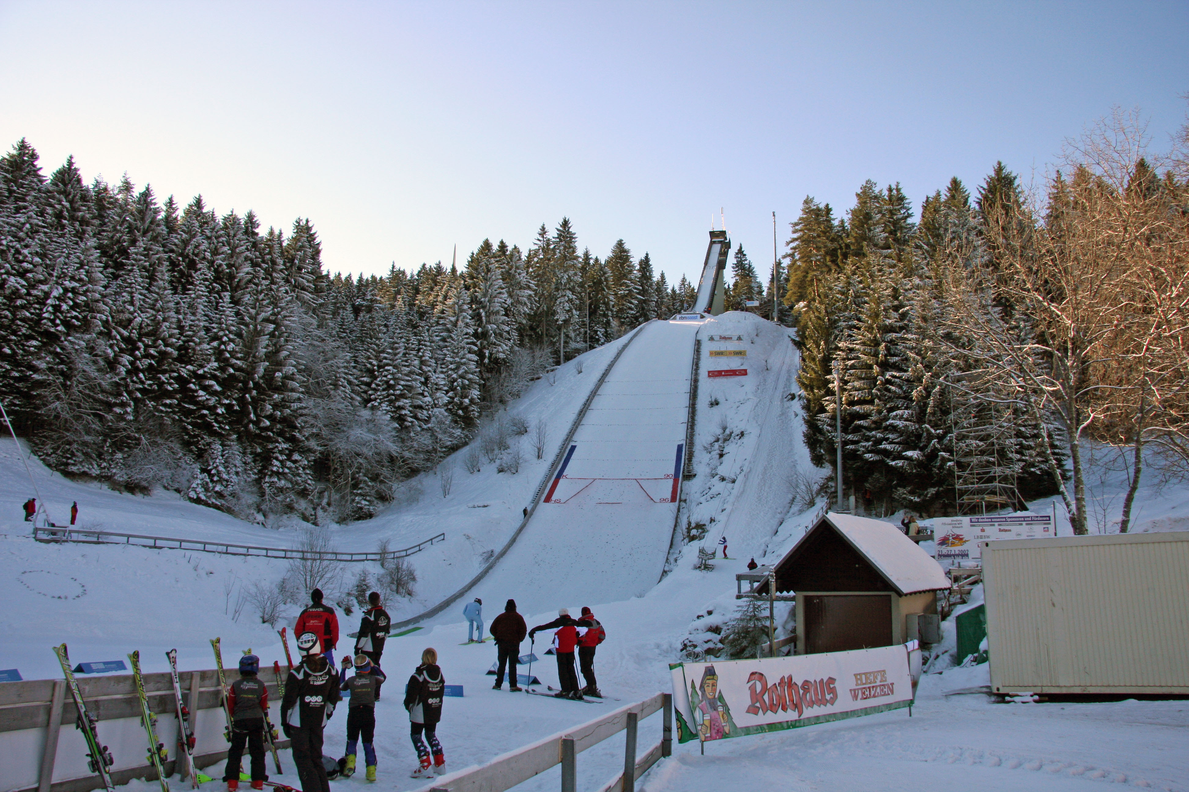 Ski jumping hill Langenwaldschanze in Schonach prepared for the Ladies Continentalcup 2009